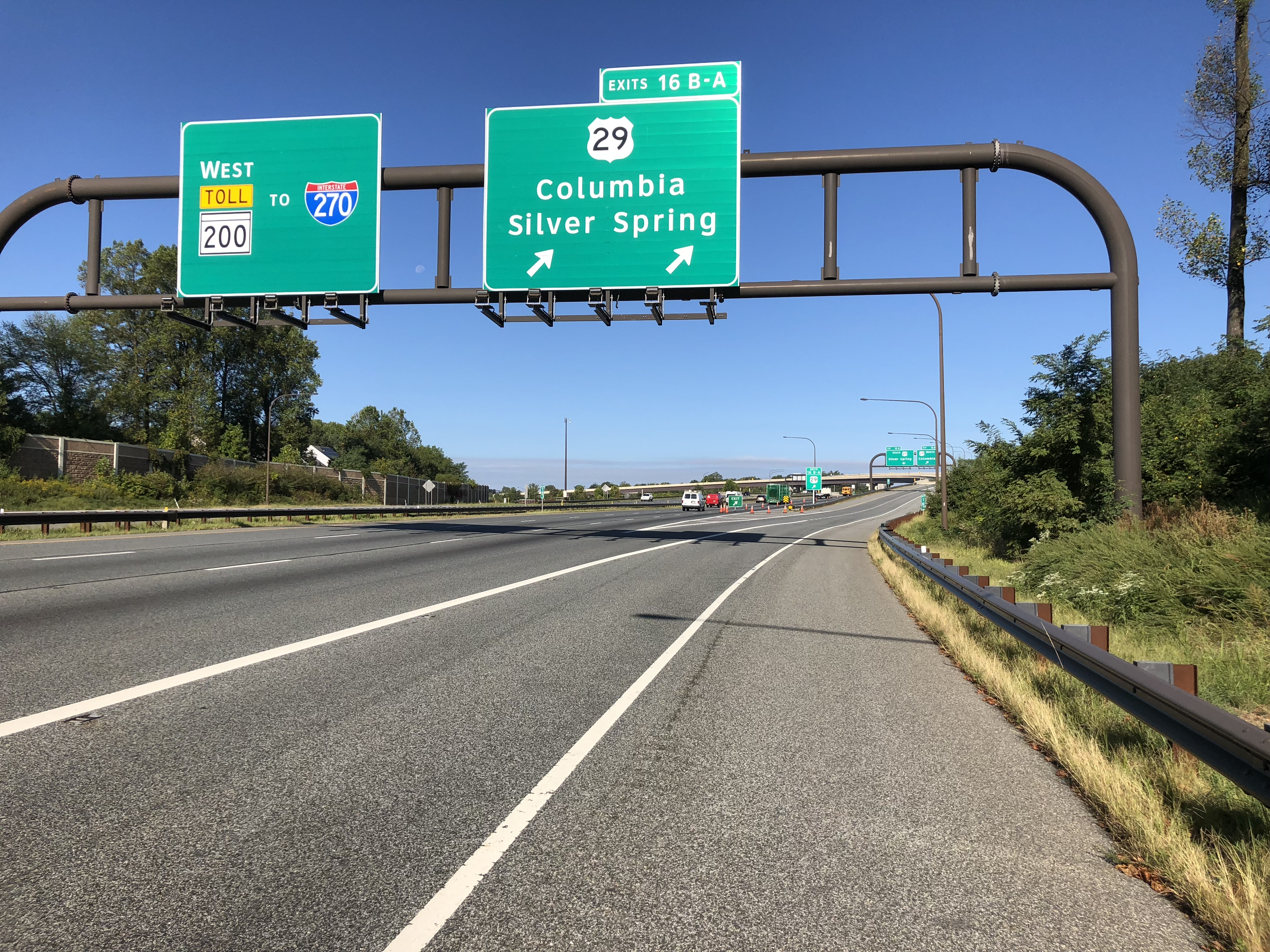 View west along Maryland State Route 200 (Intercounty Connector) at Exit 16B-A (U.S. Route 29, Columbia, Silver Spring) on the edge of Fairland and Calverton in Montgomery County, Maryland